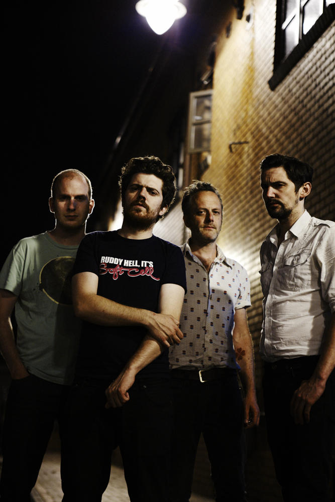 Tenebrous Liar lineup June 2012. Ben Edgar, Brendan Casey, Steve Gullick, Andy Whitehead